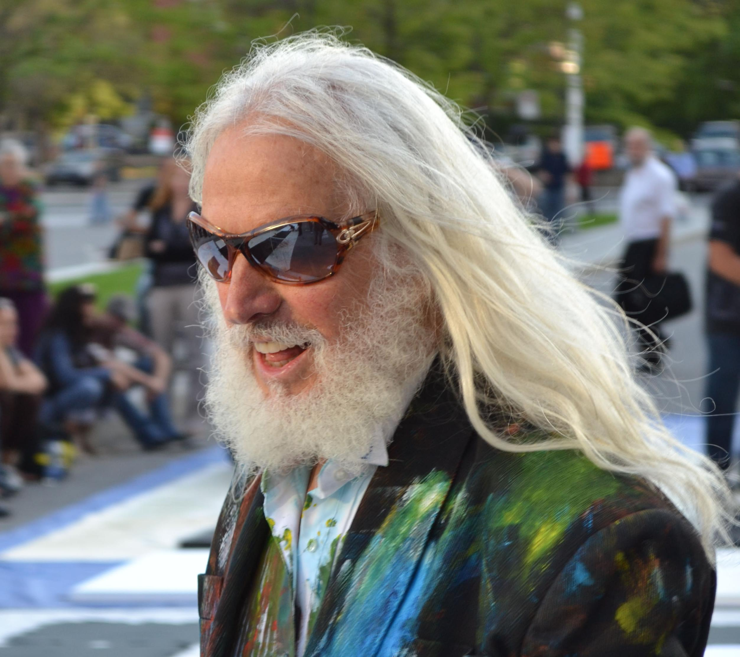 Public performance of Armand Vaillancourt en at their show "On n'a pas de printemps à perdre". Quartier des Spectacles of Montreal, at the corner of Balmoral and Mayor streets.